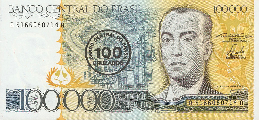 Obverse of a Brazilian 100,000 cruzeiros banknote with round-shaped overstamp of a value of 100 cruzados. The banknote featuring Juscelino Kubitschek 21st president of Brazil, initiator behind building a new capitol city of Brasilia in just 41 months.